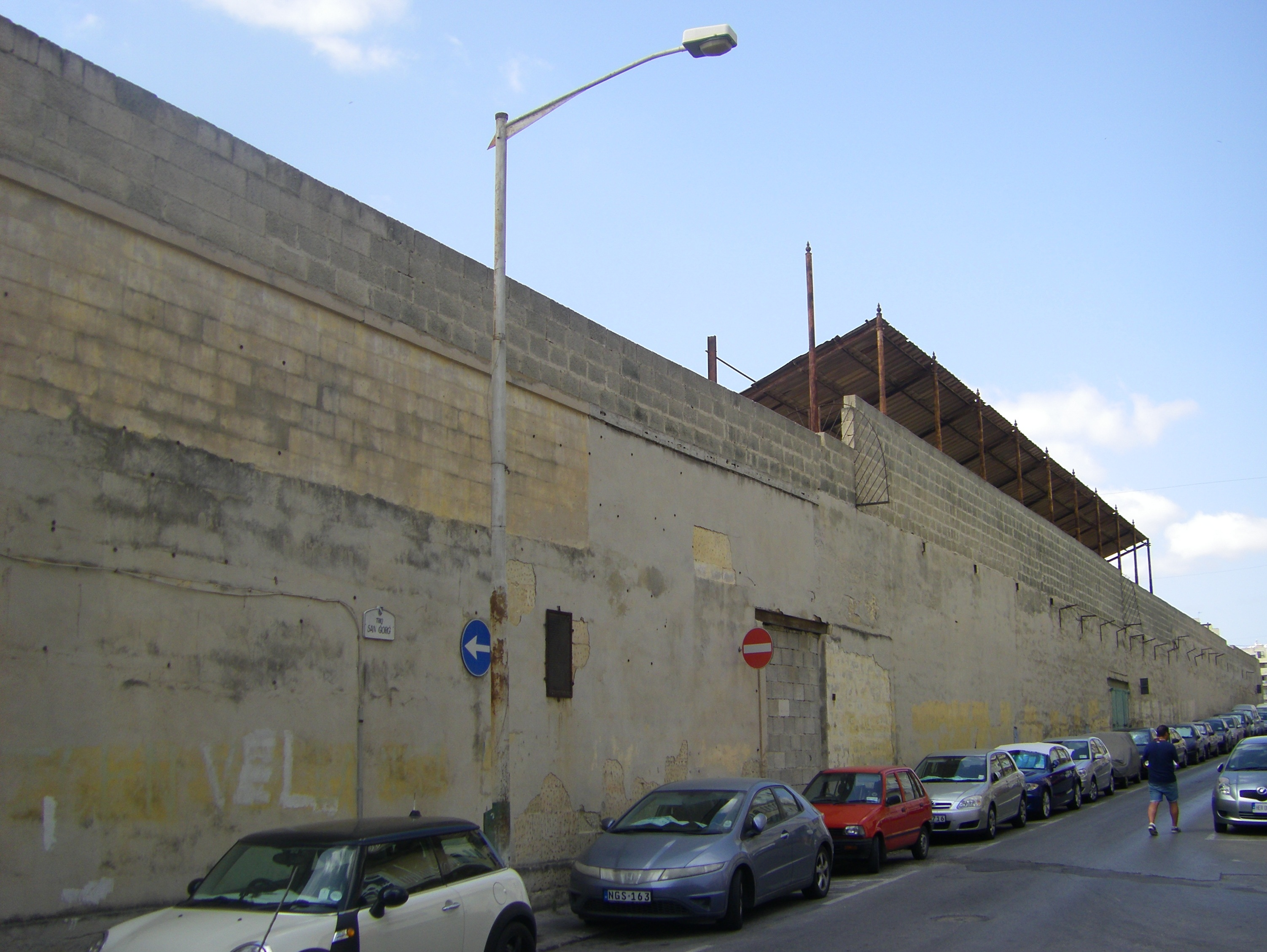 View to the former main stand of the old Empire Stadium in Gzira, Malta